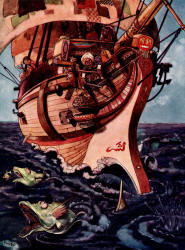 Rene Bull (Arabian Nights, 1912)